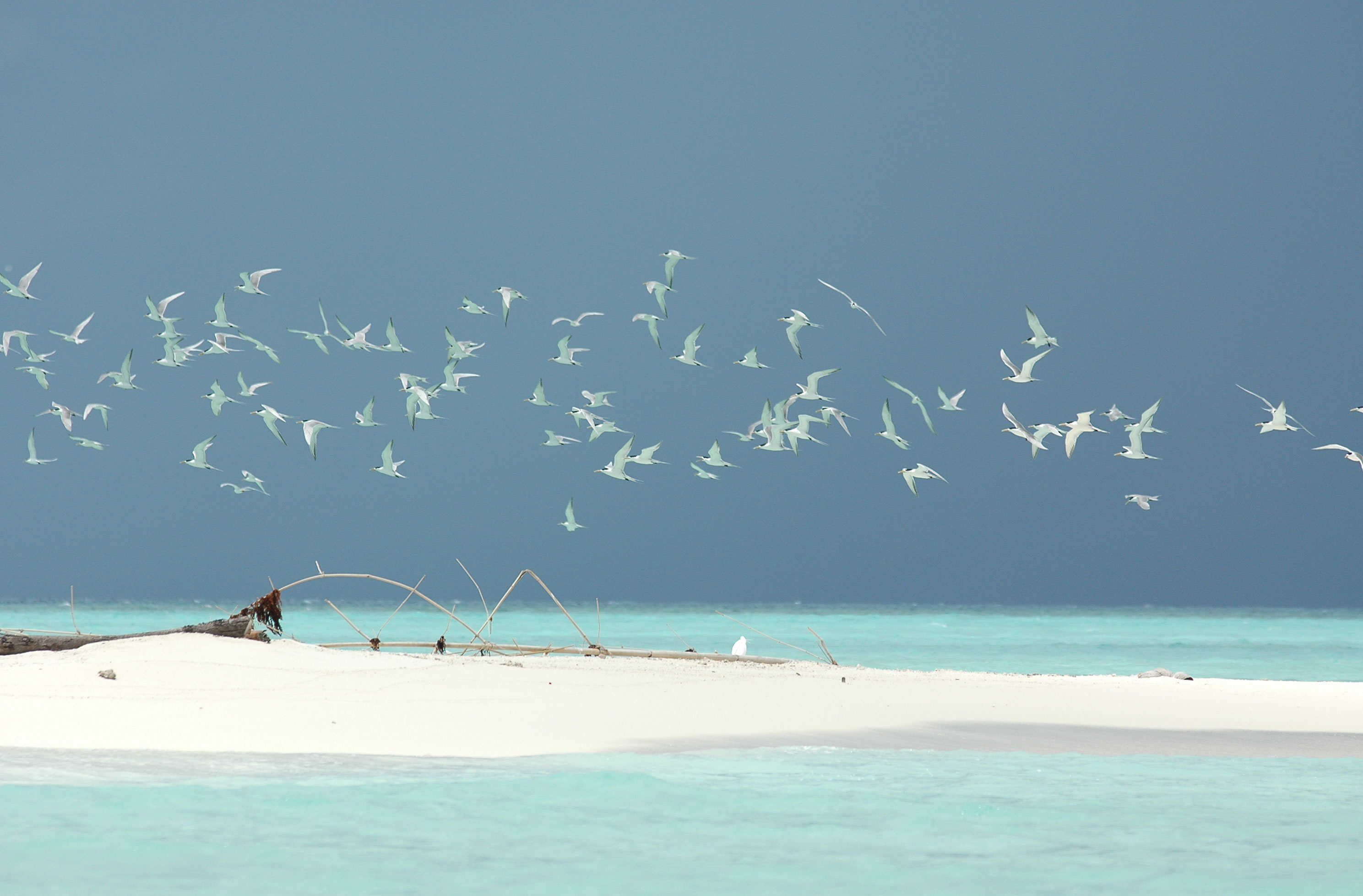 Tubbataha Reefs Natural Park (Philippines)